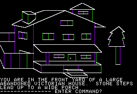 Screenshot of the game Mystery House running on Apple II. The color white was represented by combining green and purple, which produced white in the middle, but bleeding of the other two colors on the edges.